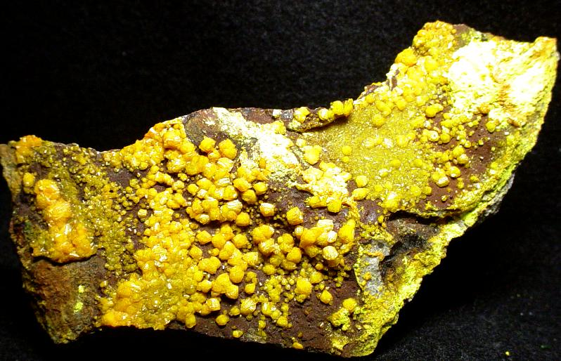 Francevillite, Mounanaite, Curienite Locality: Mounana Mine (Mouana Mine), Franceville, Haut-Ogooué Province, Gabon (Locality at ) A rich CABINET-sized specimen that is incredible for both its aesthetic and scientific qualities. This piece features INDIVIDUAL and ISOLATED , RELATIVELY LARGE crystals of Francevillite to several mm in size, on an attractive matrix plate! Tiny yellow-gemmy crystals of mounanaite are so abundant and rich on this specimen that they are easily eye-visible against the larger francevillites, as shown in my pics. Characteristically powdery microcrystals of orangey-yellow curienite are in association , as well, in scattered crystals and as a thick matte on the rightmost edge of the specimen. This mine closed in 1999 after 40 years of production, and this is, for quality if not size, pretty much as good as the mineral gets. Note that this its the type locality of ALL THREE species! 12.5 x 7 x 2.25 cm